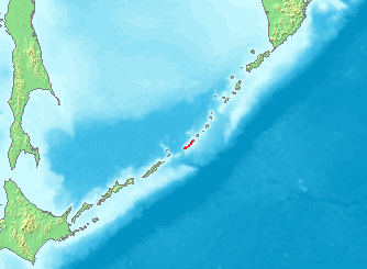 Simushir island